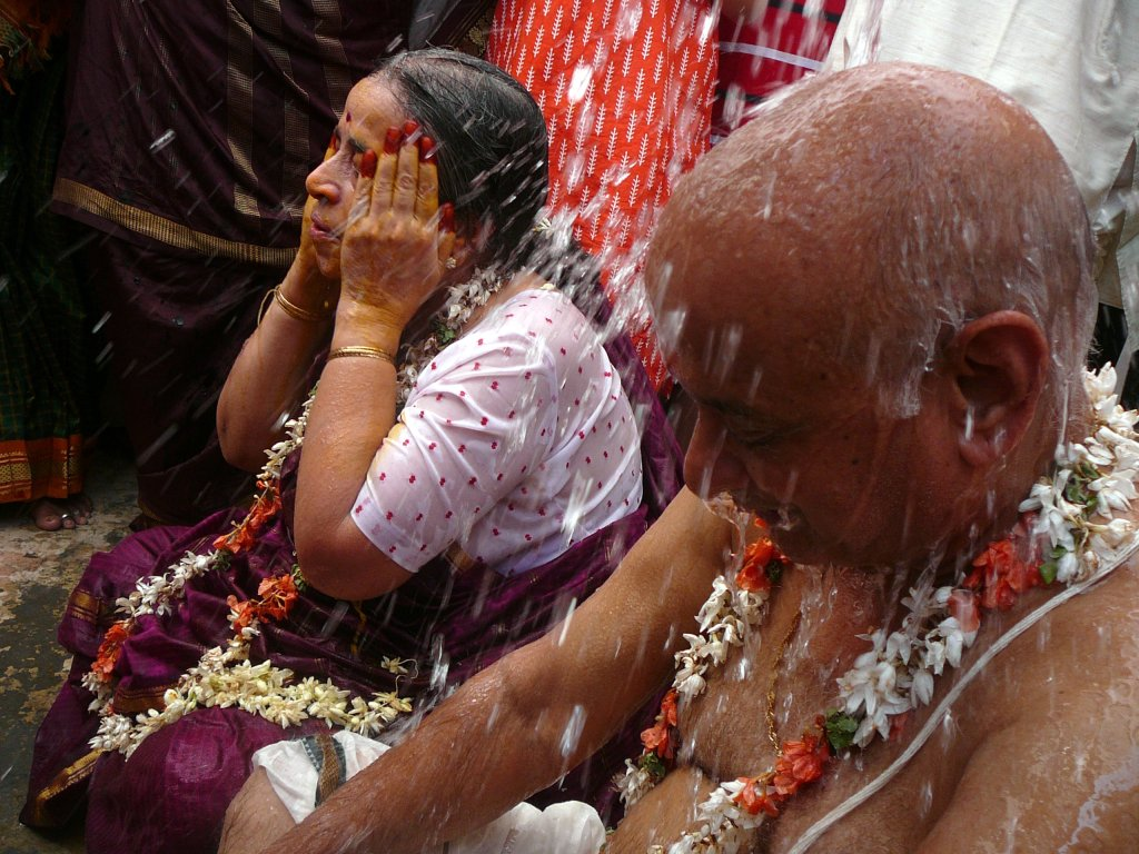 A couple is blessed with water at their re-marriage ceremony (reneweal of vows), which takes place around the husband's 60th birthday.